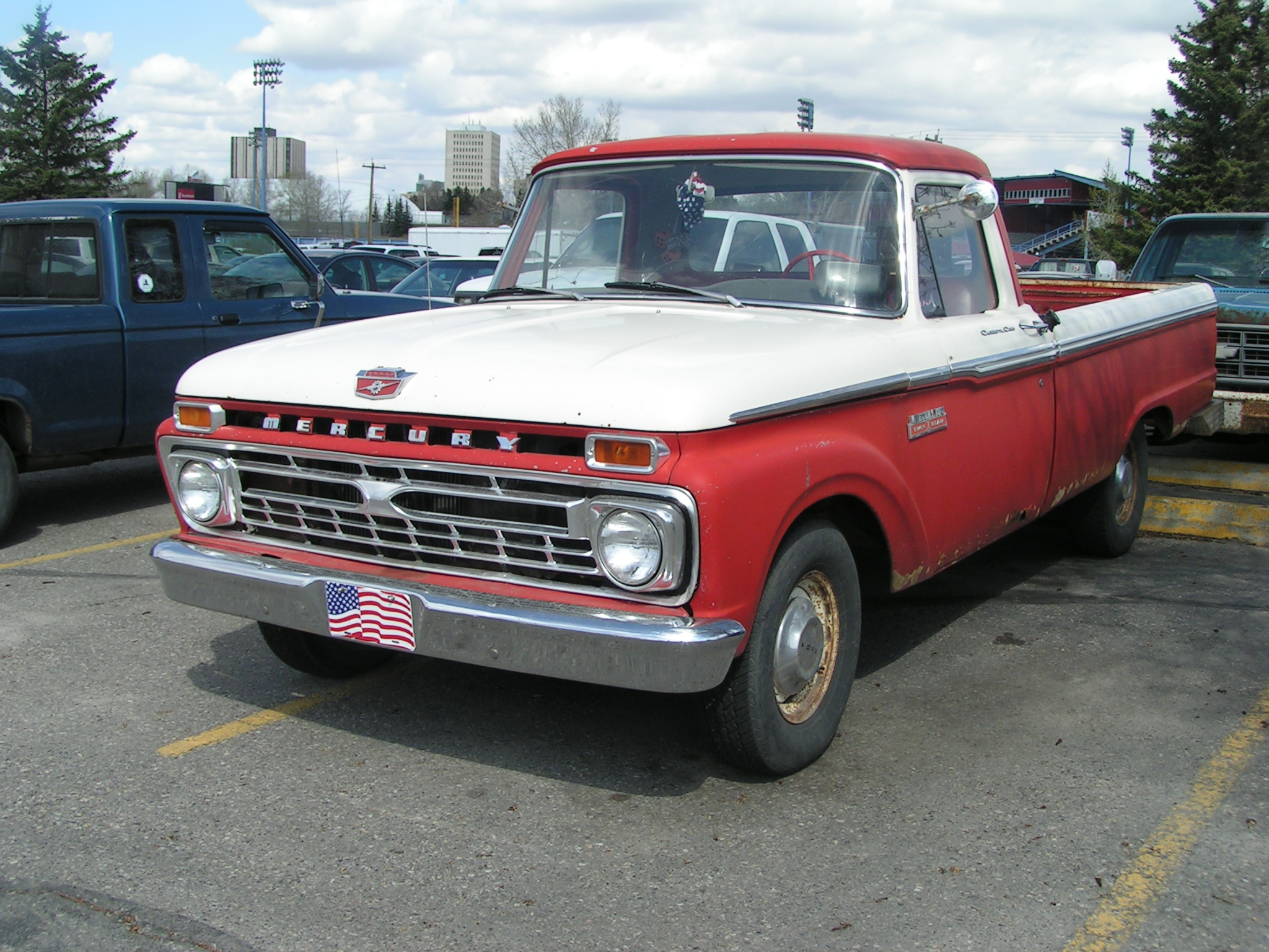 1966 Mercury M-100, Canada only model variant of the Ford F-100